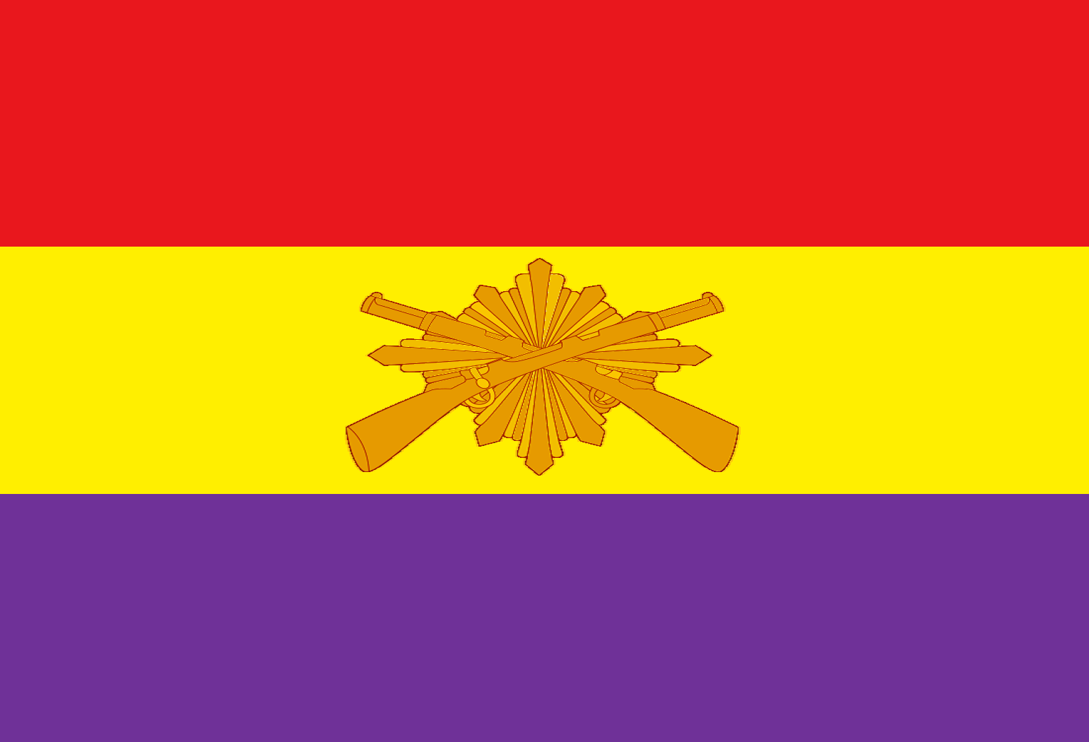 Plain standard of the Carabineros Corps during the Spanish Republic. Based on the Standard of Grupo C, Ministerio de Hacienda y Economia, Jefatura Central de Transportes.